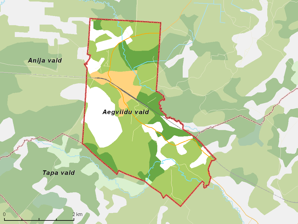 Map of municipality in Estonia